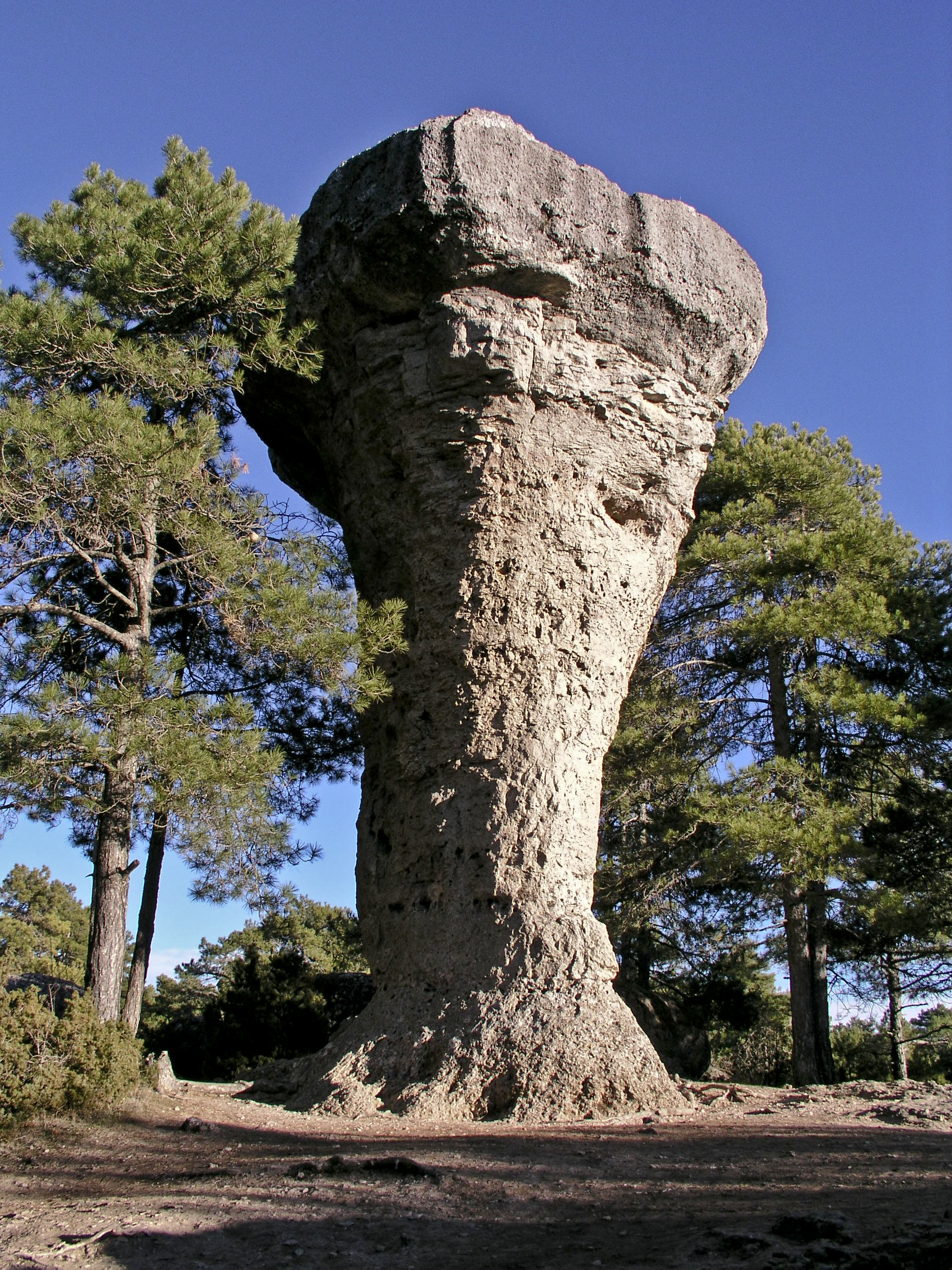 La Ciudad Encantada, Province of Cuenca, Spain. Nature reserve. Karst formation. "Tormo alto"